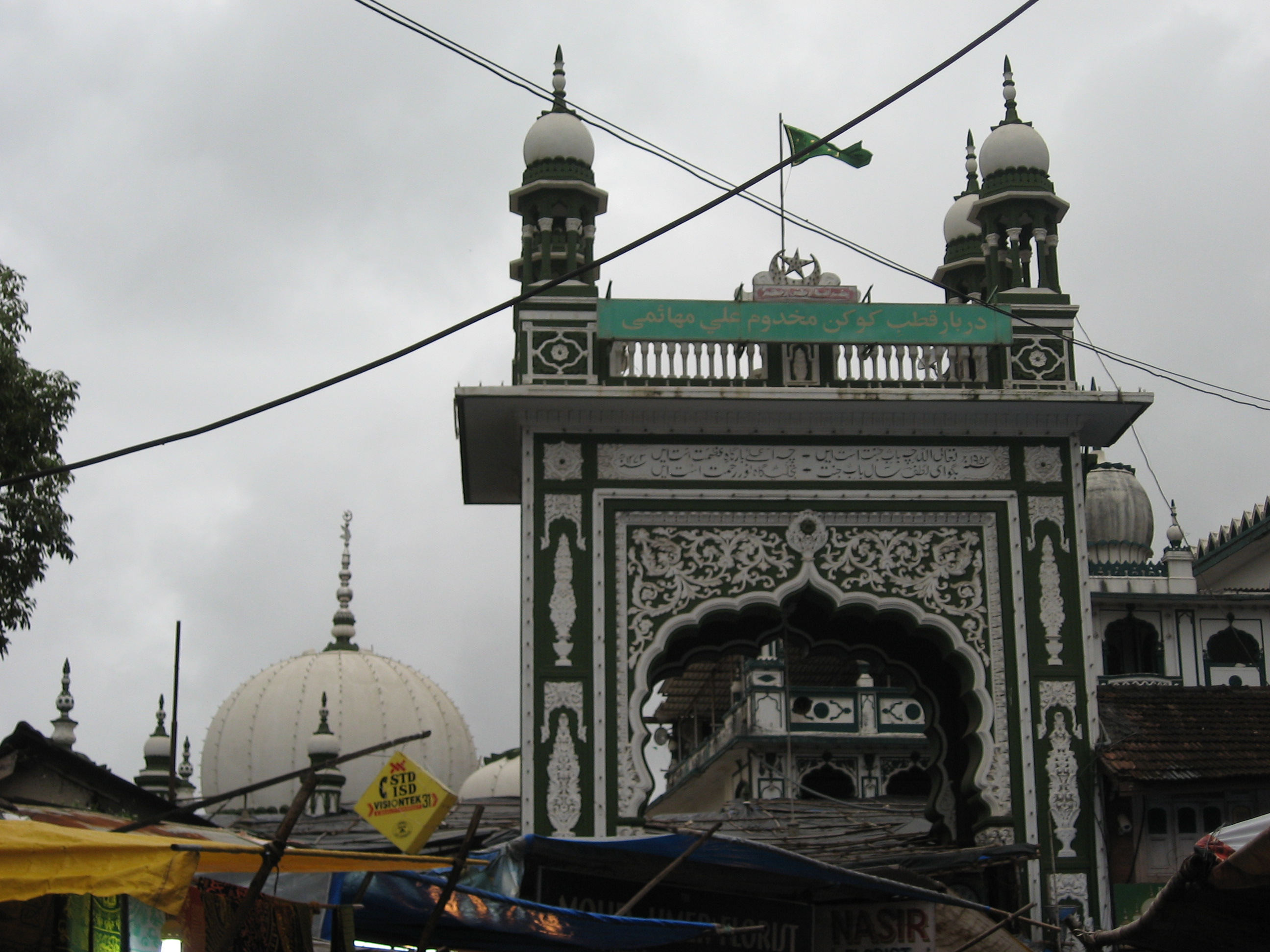 Dargah of Makhdoom Ali Mahimi, a fifteenth century Sufi saint in Mahim, Mumbai